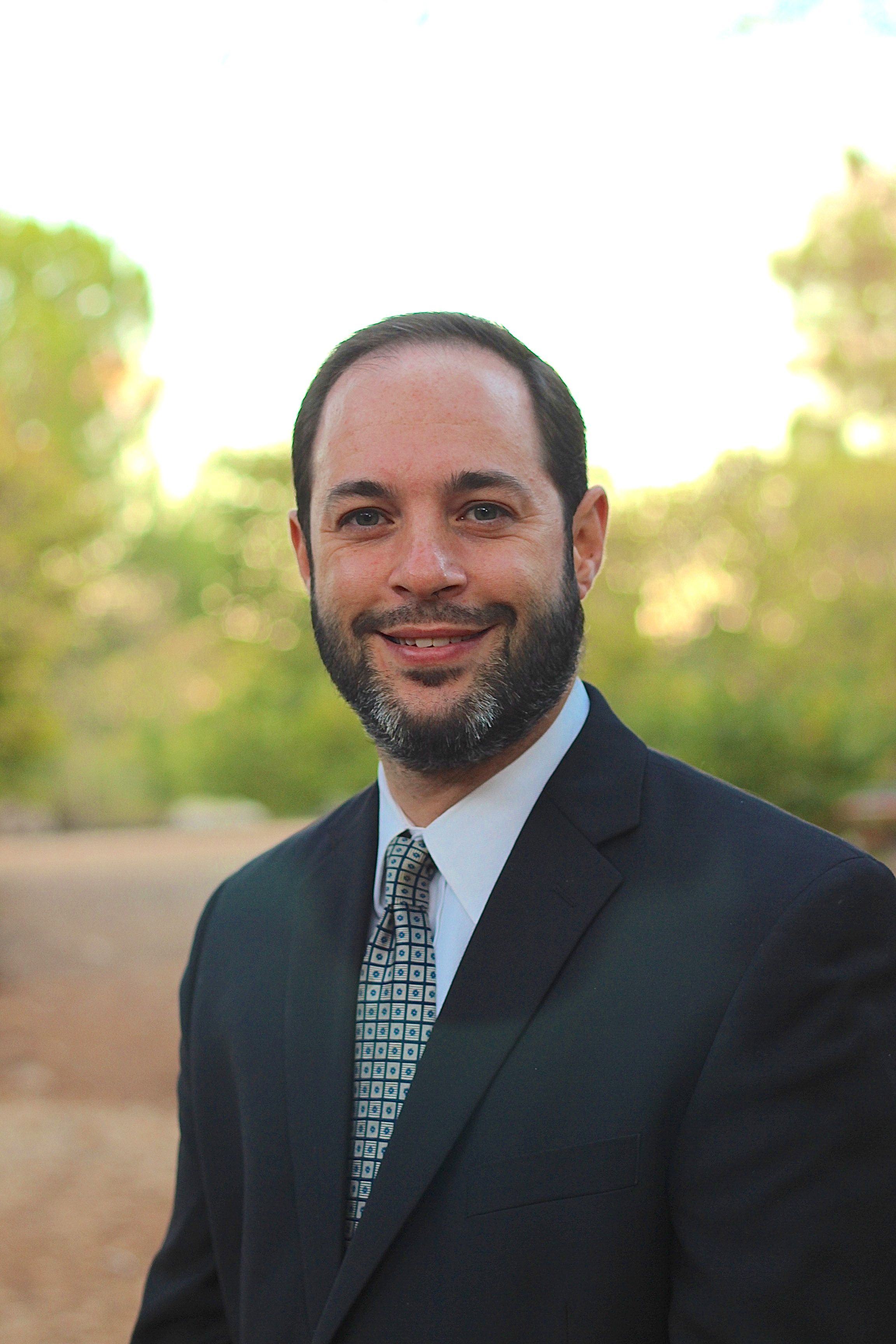 Rabbi Dovid Gottlieb